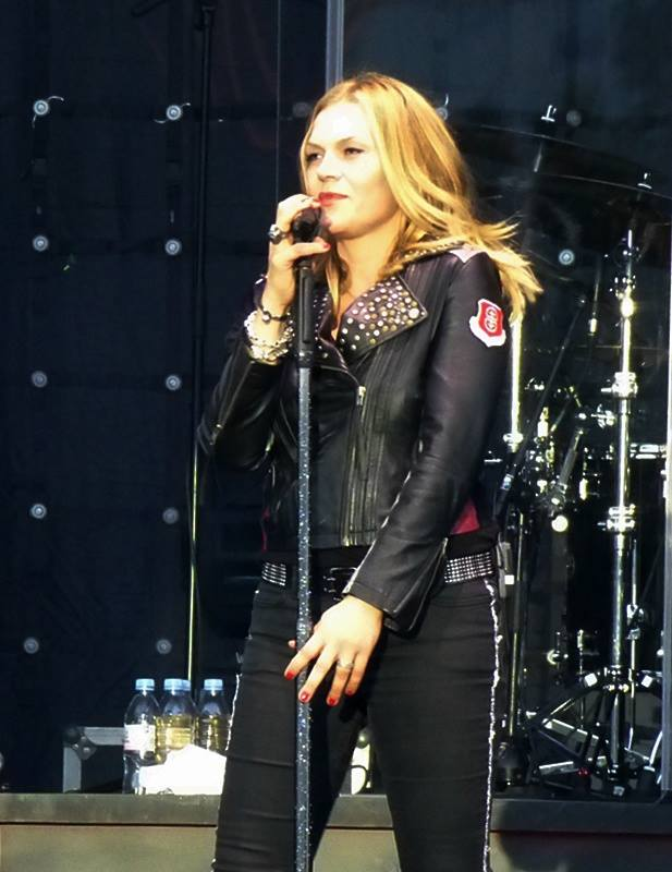 Anna Loos mit Silly am 6. September 2013 in Magdeburg